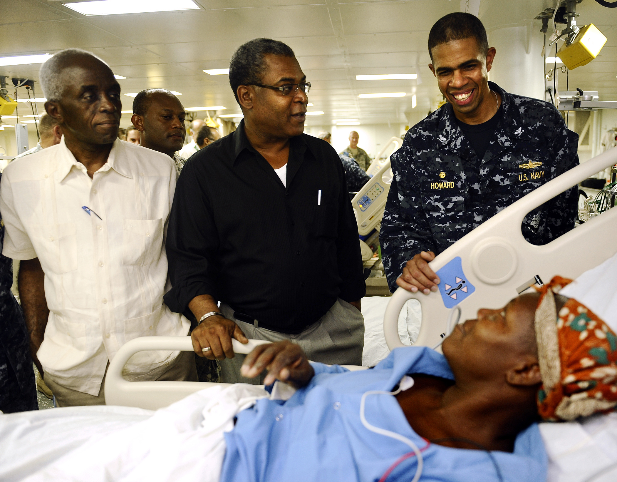 BAIE DE GRAND GOAVE, Haiti (Feb. 6, 2010) Capt. Sam Howard, commanding officer of the amphibious assault ship USS Bataan (LHD 5), right, visits Haitian patients in the medical ward with Haitian Prime Minister Jean-Max Bellerive, center, and members of his official party during an official visit to Bataan. Bataan is conducting humanitarian and disaster relief operations as part of Operation Unified Response after a 7.0 magnitude earthquake caused severe damage in and around Port-au-Prince, Haiti Jan. 12. (U.S. Navy photo by Mass Communication Specialist 2nd Class Kristopher Wilson/Released)